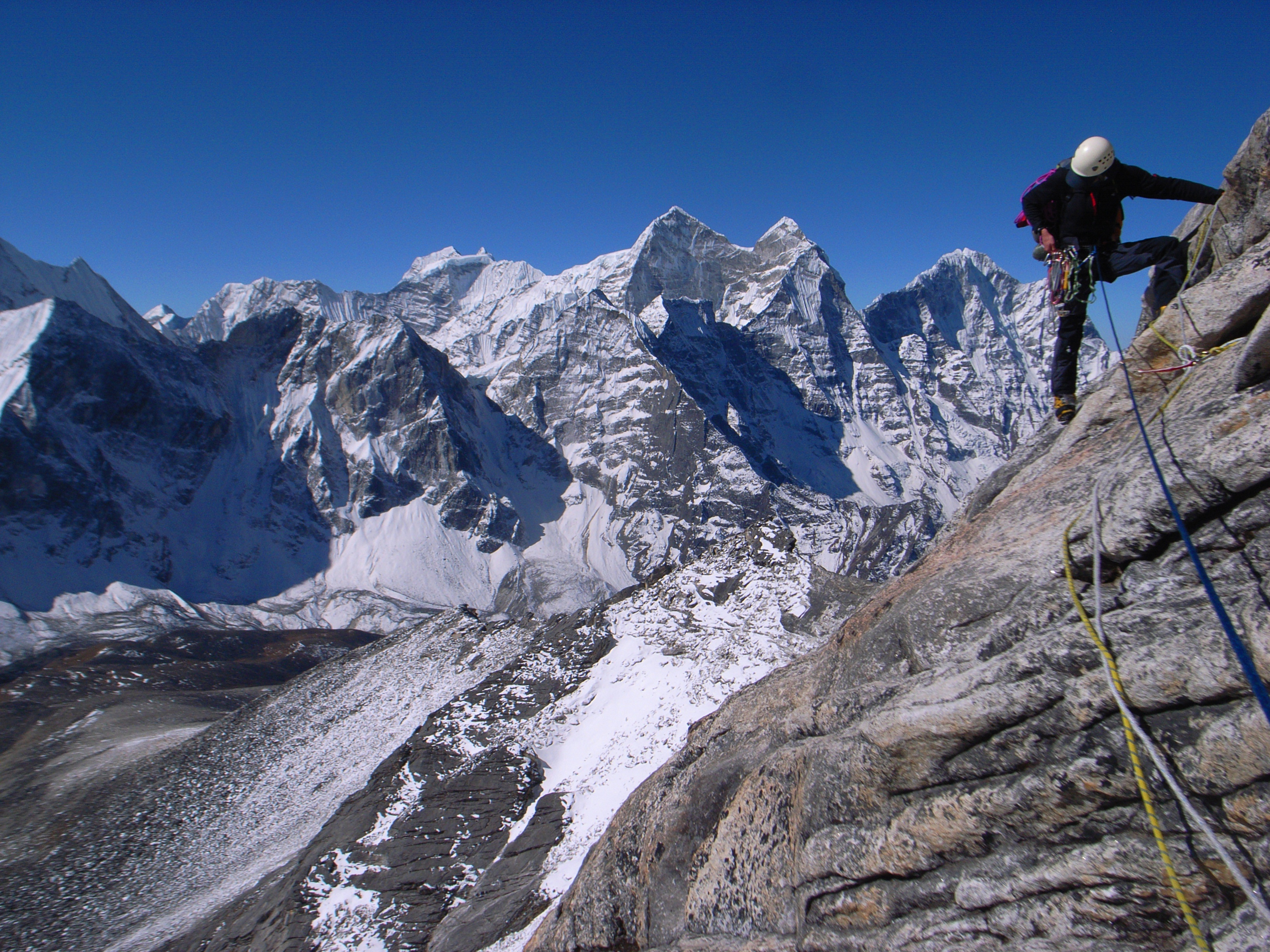 Jim Broomhead rock climbing during an alpine style ascent of Ama Dablam, Nepal. Photo by: Kristoffer Szilas.